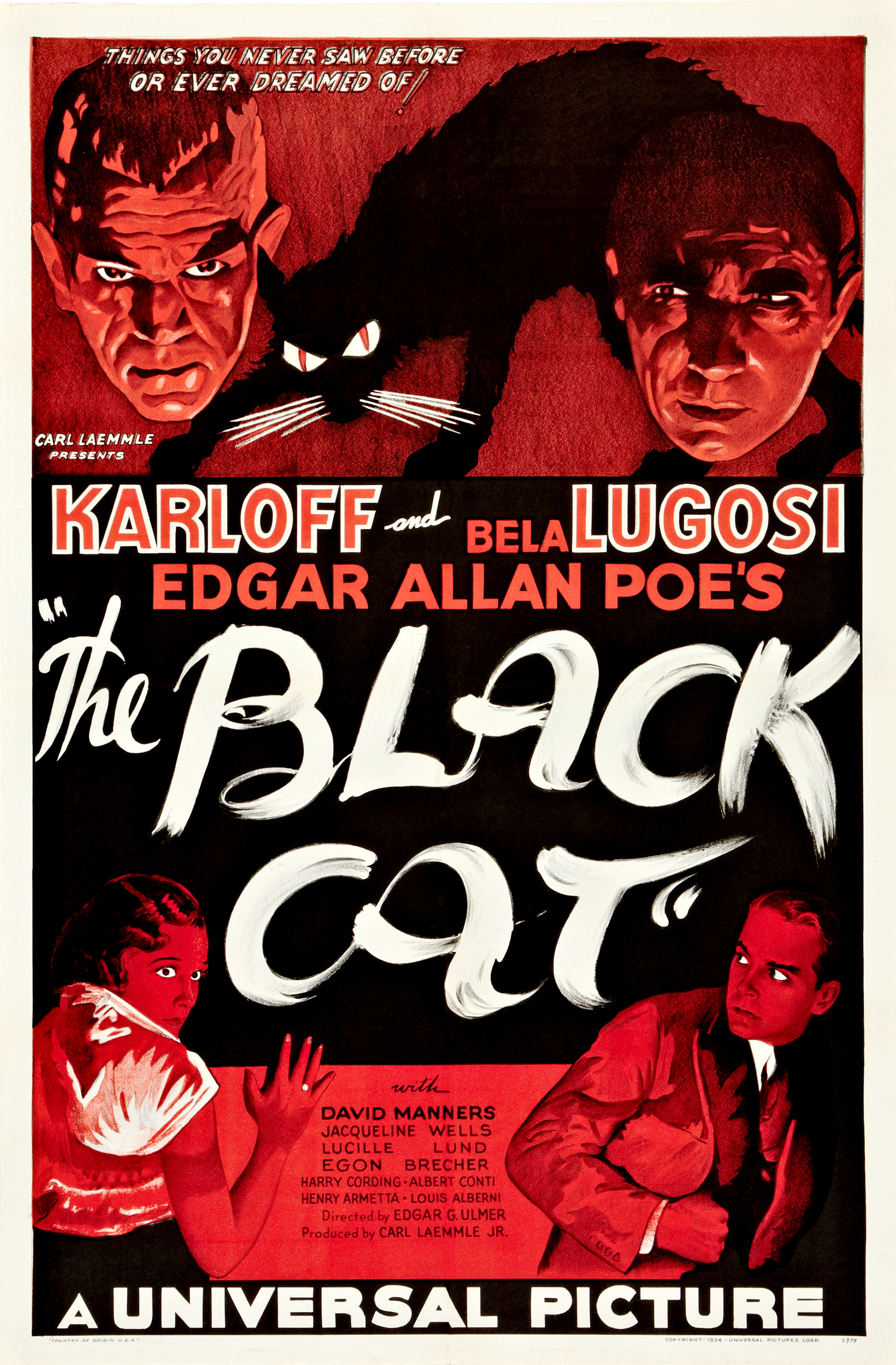 "Style B" theatrical release poster for the 1934 film The Black Cat.